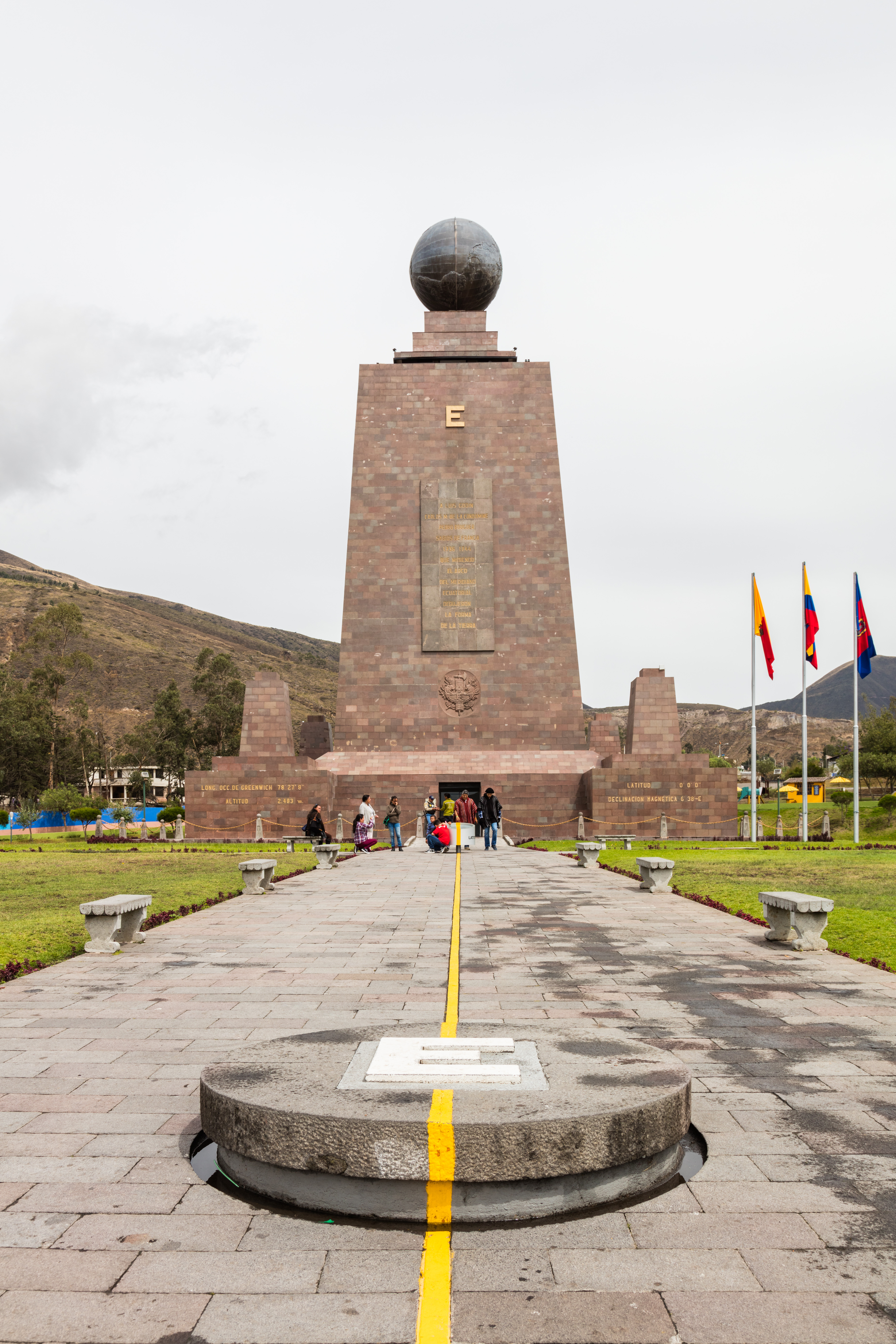 Mitad del Mundo, Quito, Ecuador